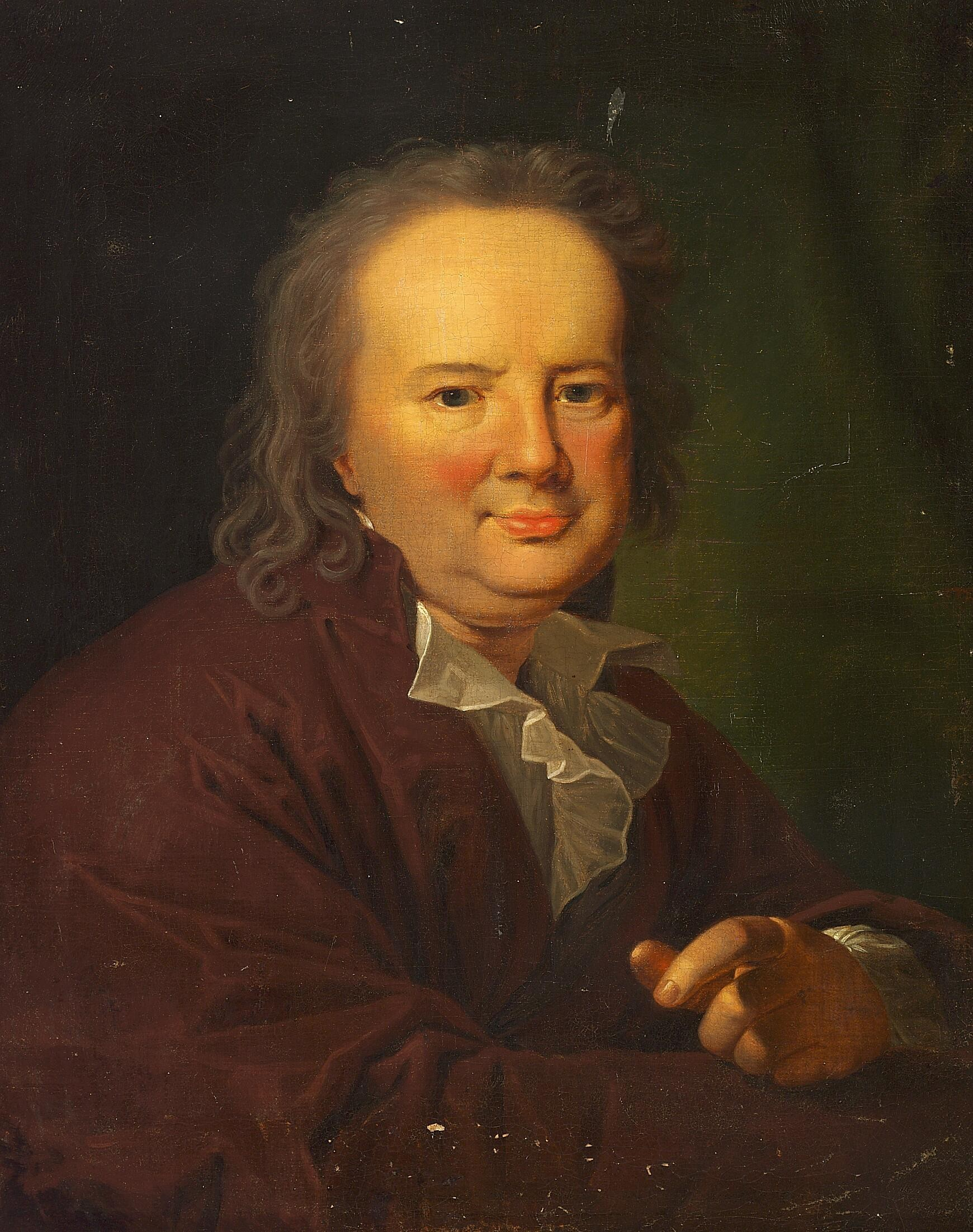 Historiker, kammerherre, konferensråd Peter Frederik Suhm